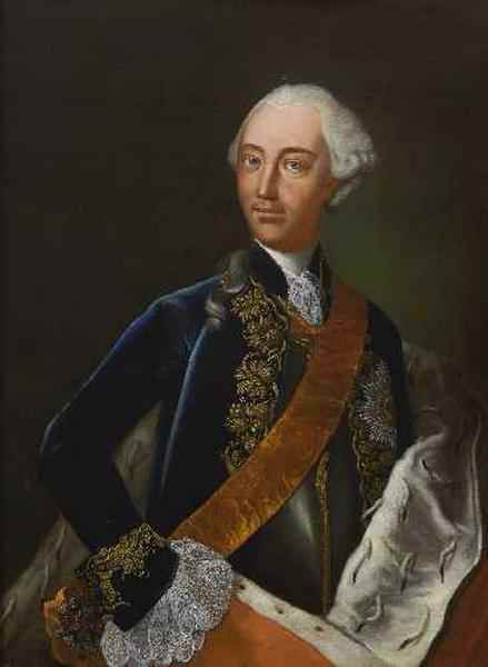 Charles Alexander, margrave of Brandenburg-Ansbach